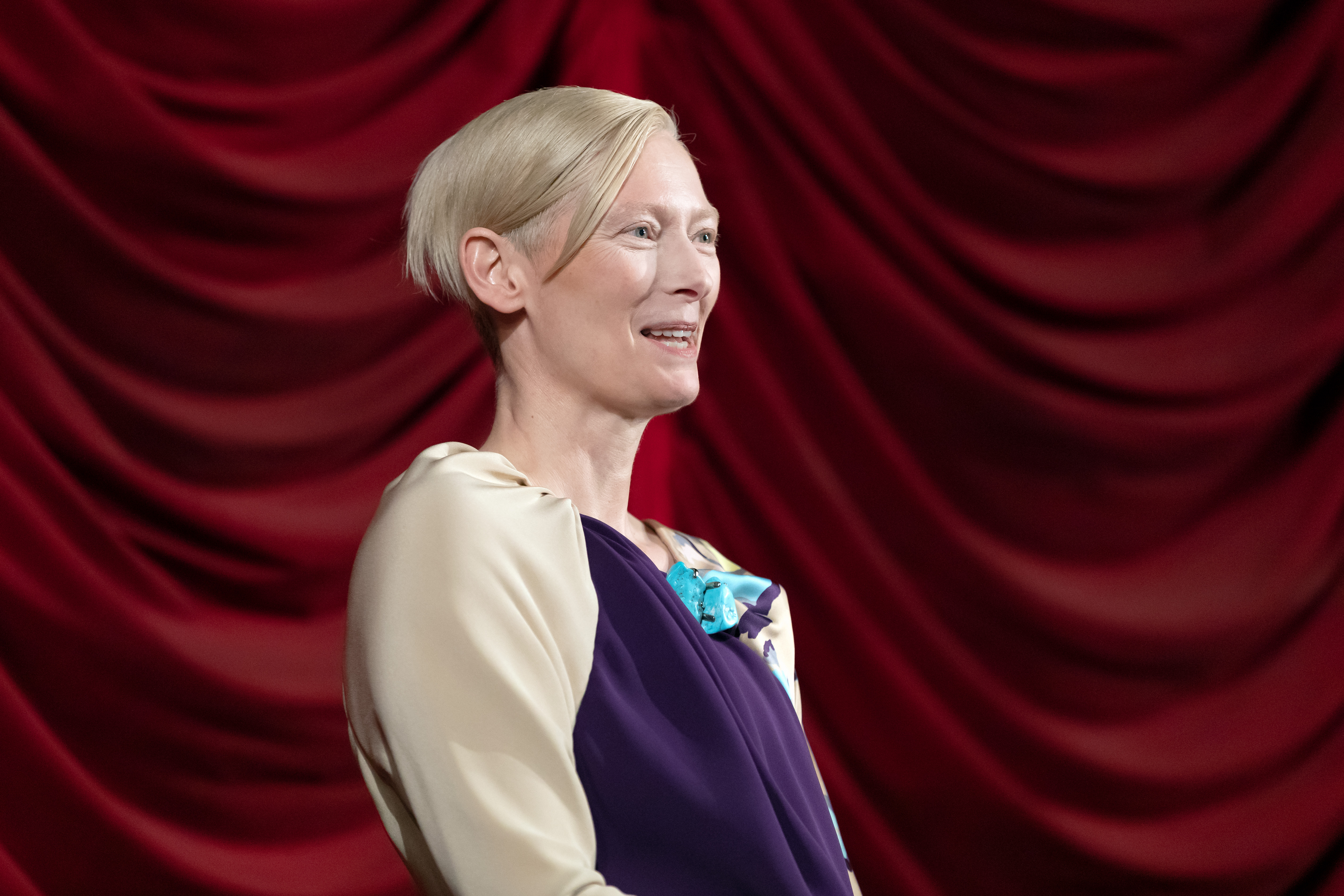 Tilda Swinton at the screening of Suspiria during the Vienna International Film Festival 2018, Gartenbaukino in Vienna, Austria.